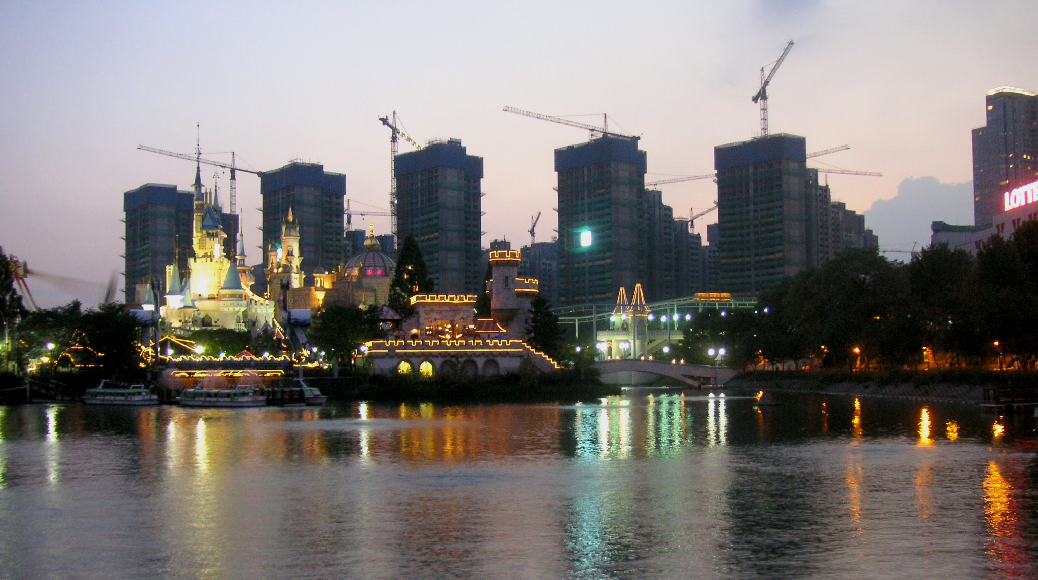 Gone are those days! Was this really 10 years ago? I believe this is Seokchon Lake Park (석촌호수공원) and guessing by the construction in this picture, the location looks quite different now. So this is also of historical value I suppose. Evening light on Seokchon lake park, with Moon not Visible.